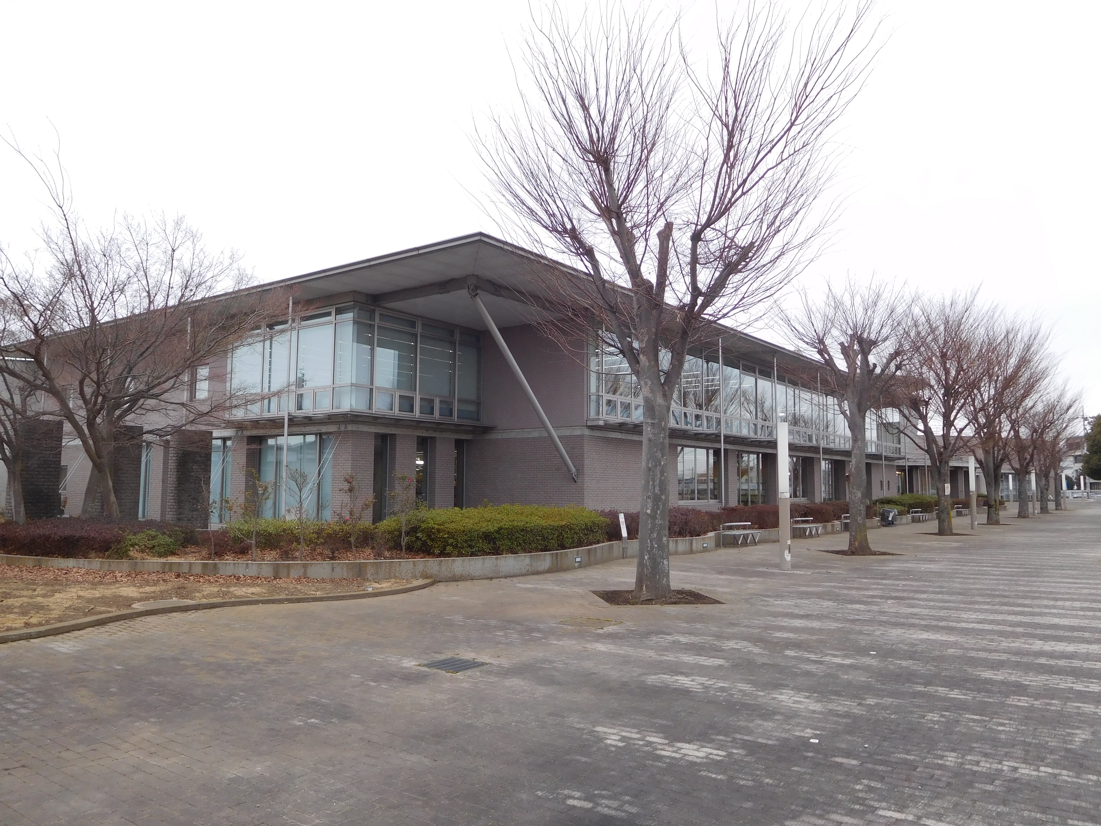 This is Chikusei Public Library Central Branch in Chikusei, Ibaraki, Japan.